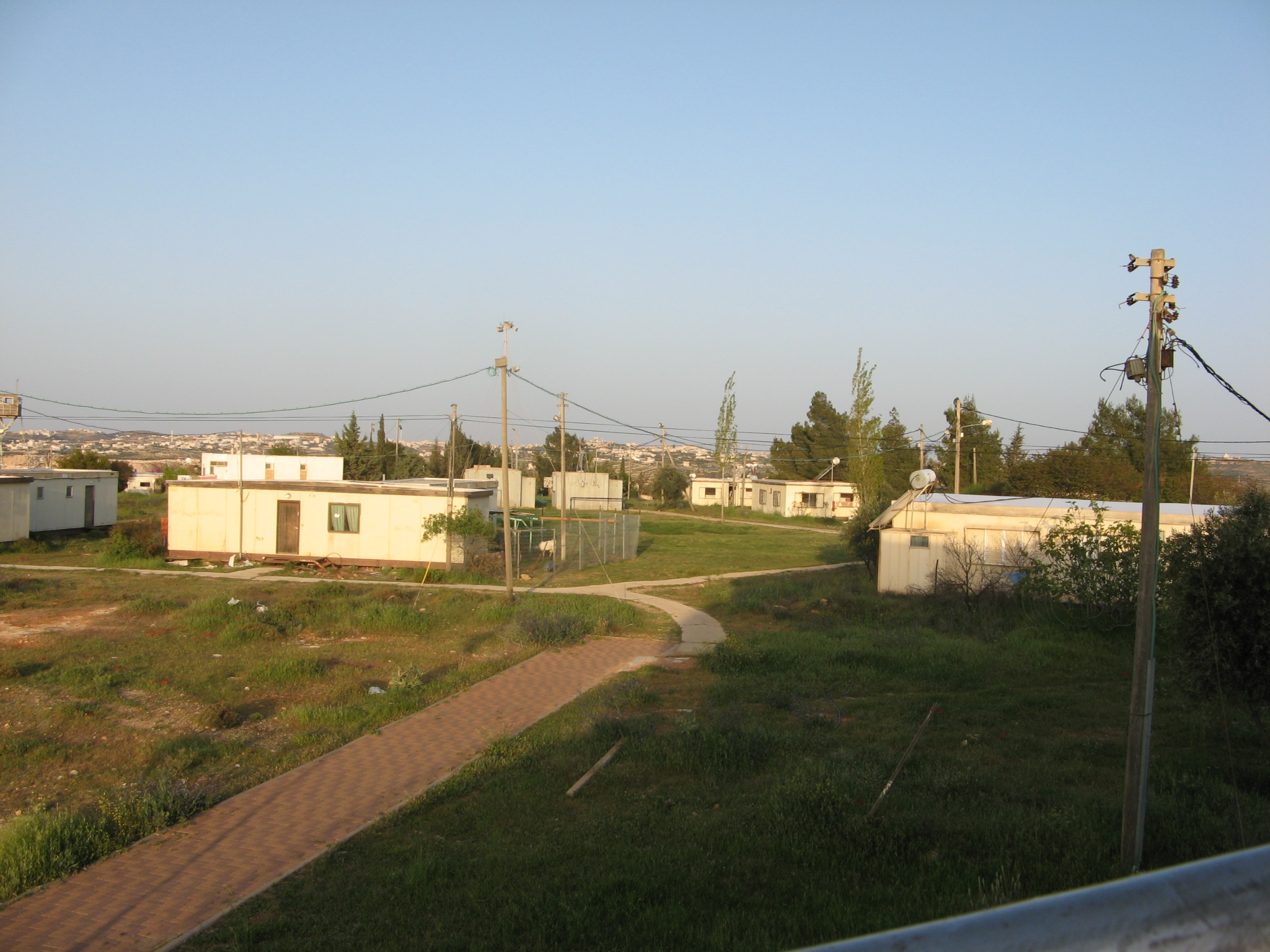 Overview of Caravan area in Meitzad